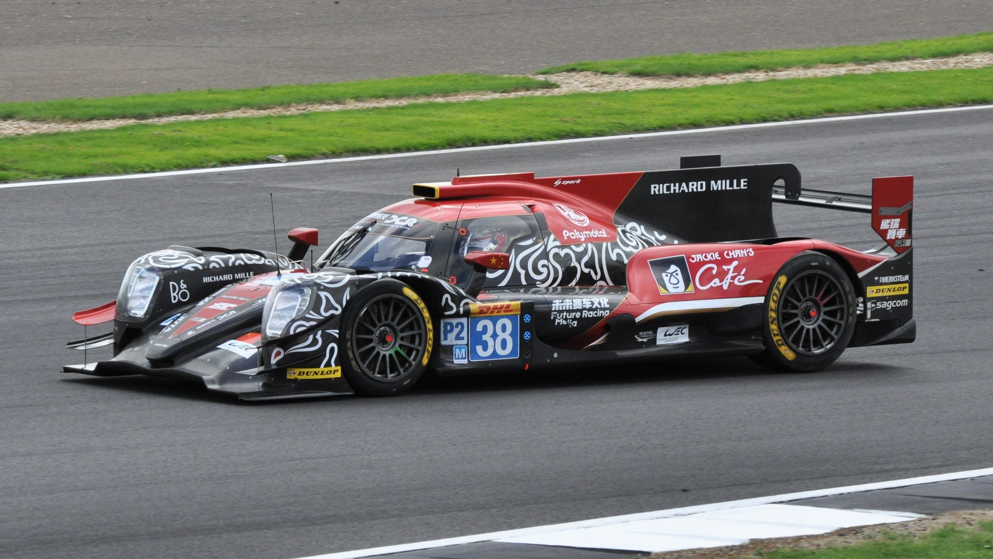 Monegasque driver Stéphane Richelmi guides the number 38 Jackie Chan DC Racing-entered Oreca 07 car into Village corner during the 2018 6 Hours of Silverstone race. Richelmi and his co-drivers, Ho-Pin Tung and Gabriel Aubry, were lying second in the LMP2 class at the time this photo was taken but rose to first (and fourth overall) by the finish.